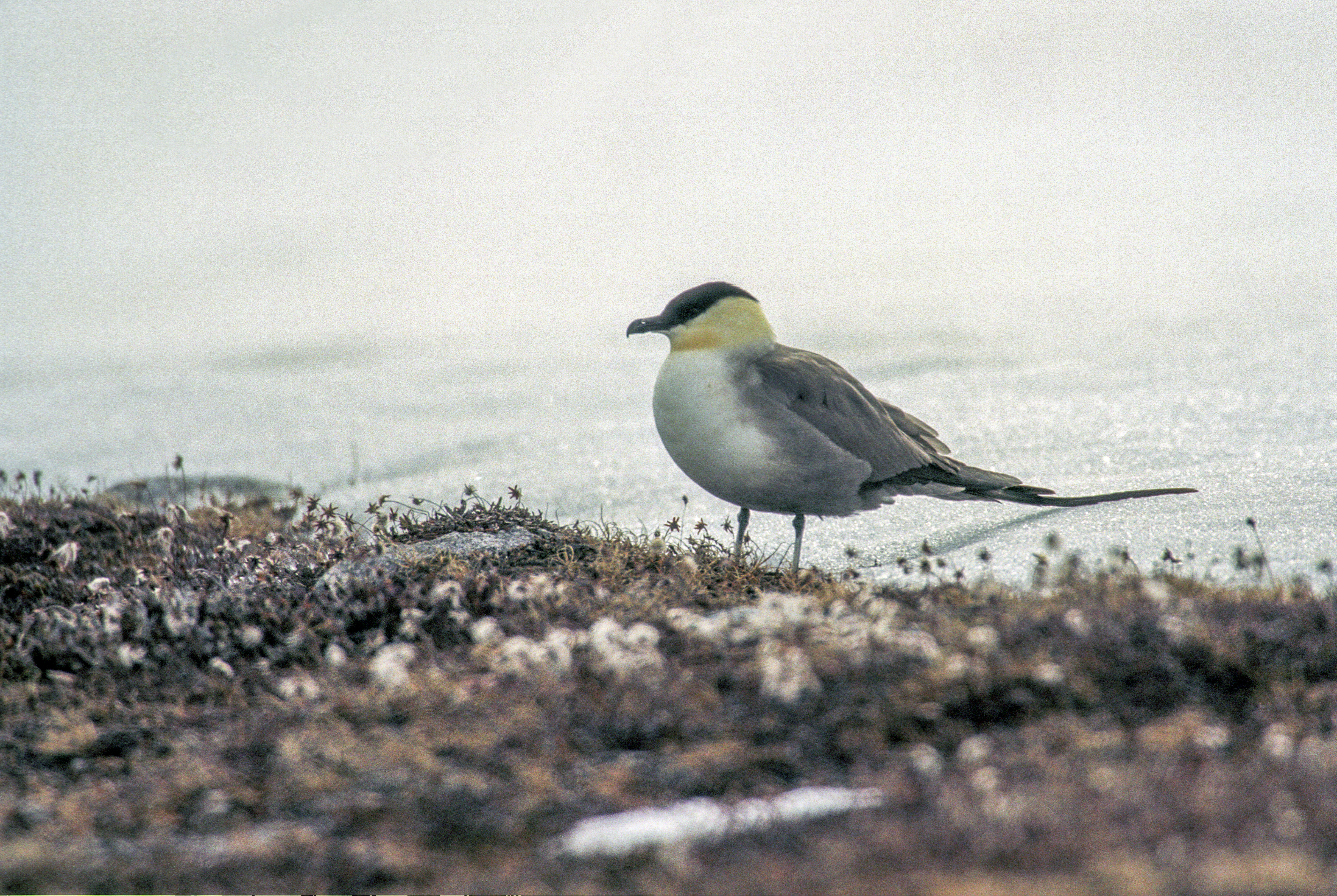 spitsbergen, Long-tailed Skua (Stercorarius longicaudus)